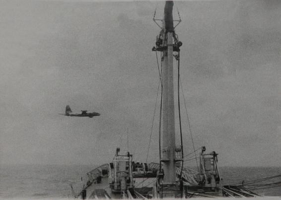 USA Navy aircraft over the forecastle of the Soviet general cargo ship Metallurg Anosov at Cuba. From Septtember to November 1964.